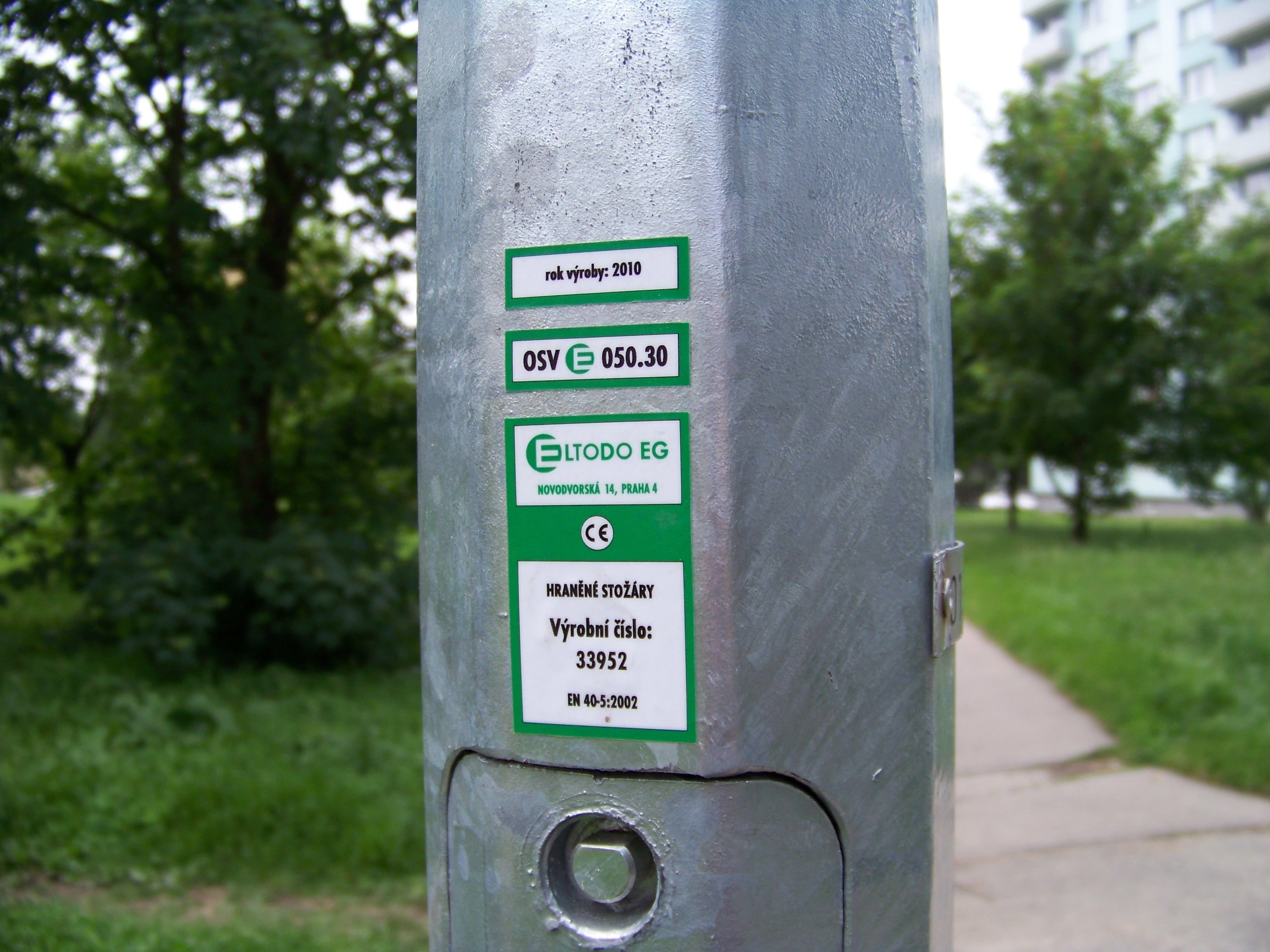 Záběhlice, Prague, the Czech Republic. Zahradní Město, a streetlamp sign.